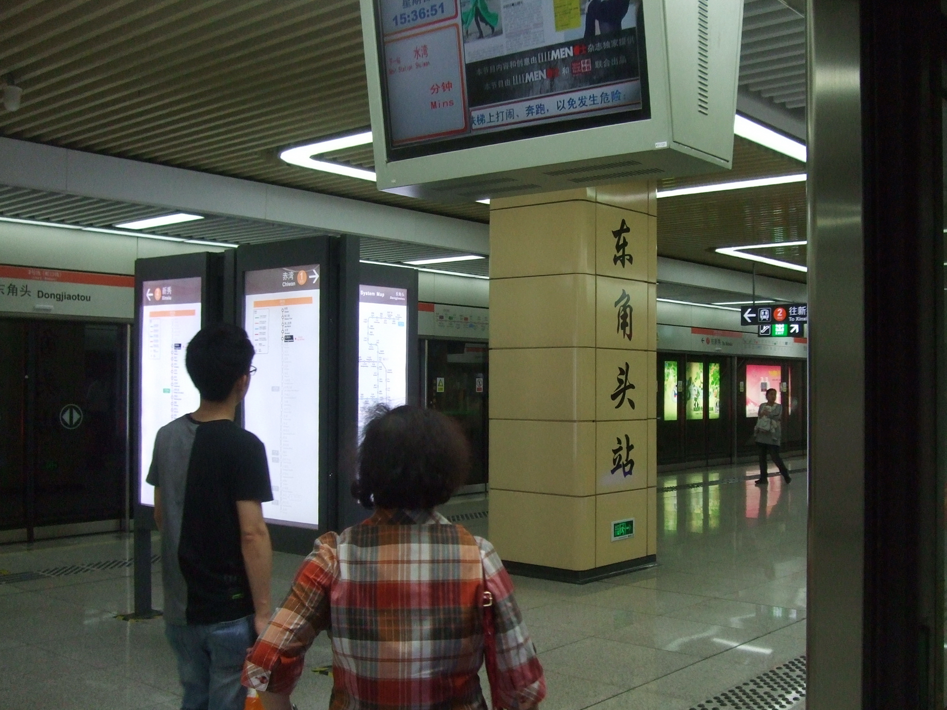 Shenzhen Metro_Dongjiaotou Station